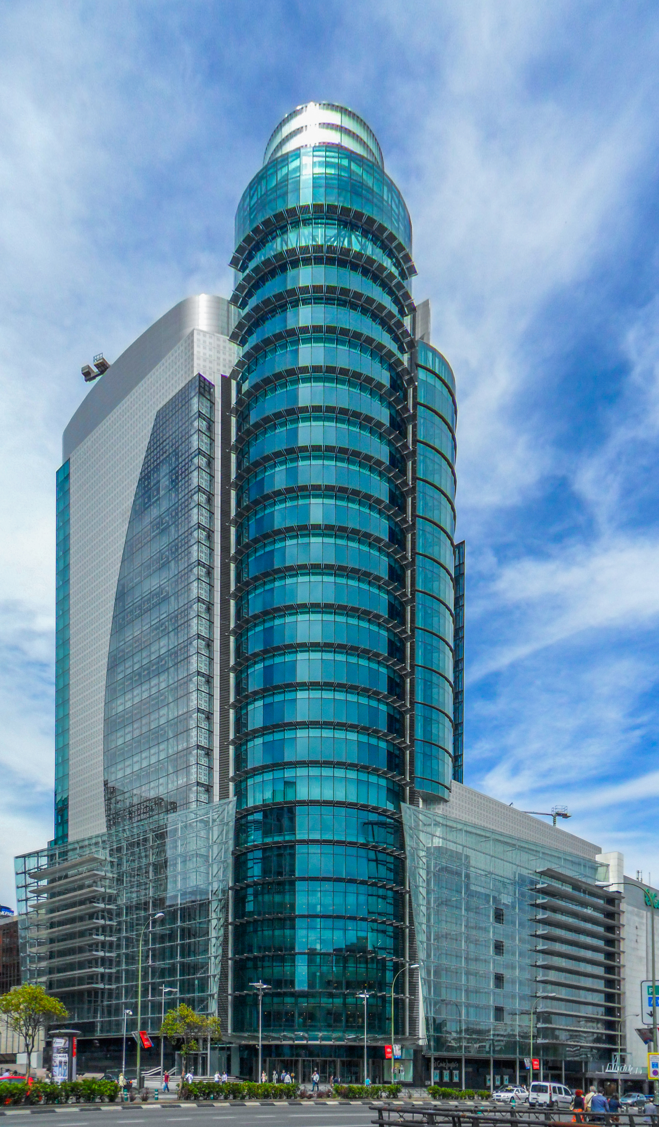 Façade of Torre Titania in Madrid (Spain).